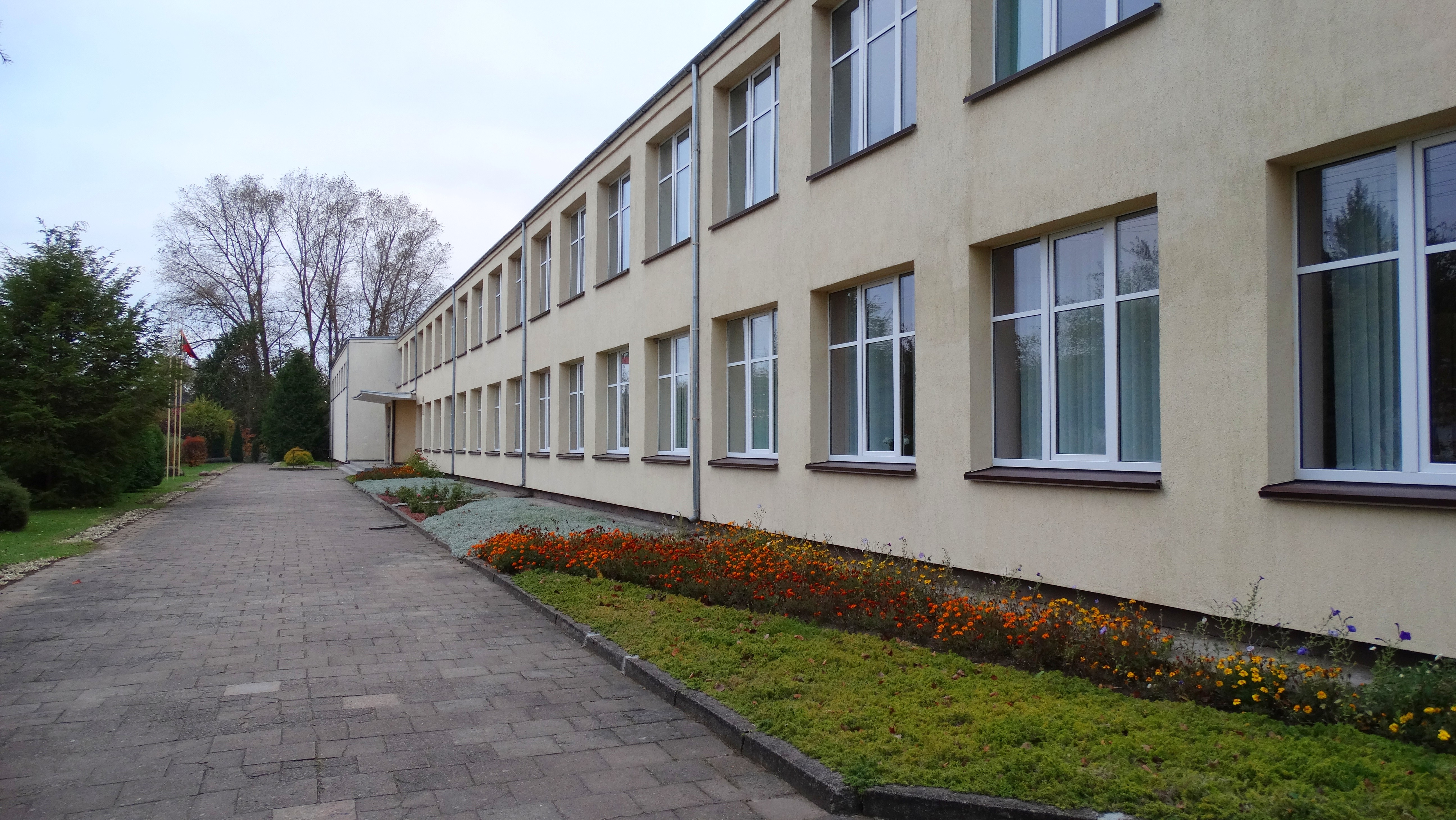 Basic School in Kūlupėnai, Kretinga District, Lithuania